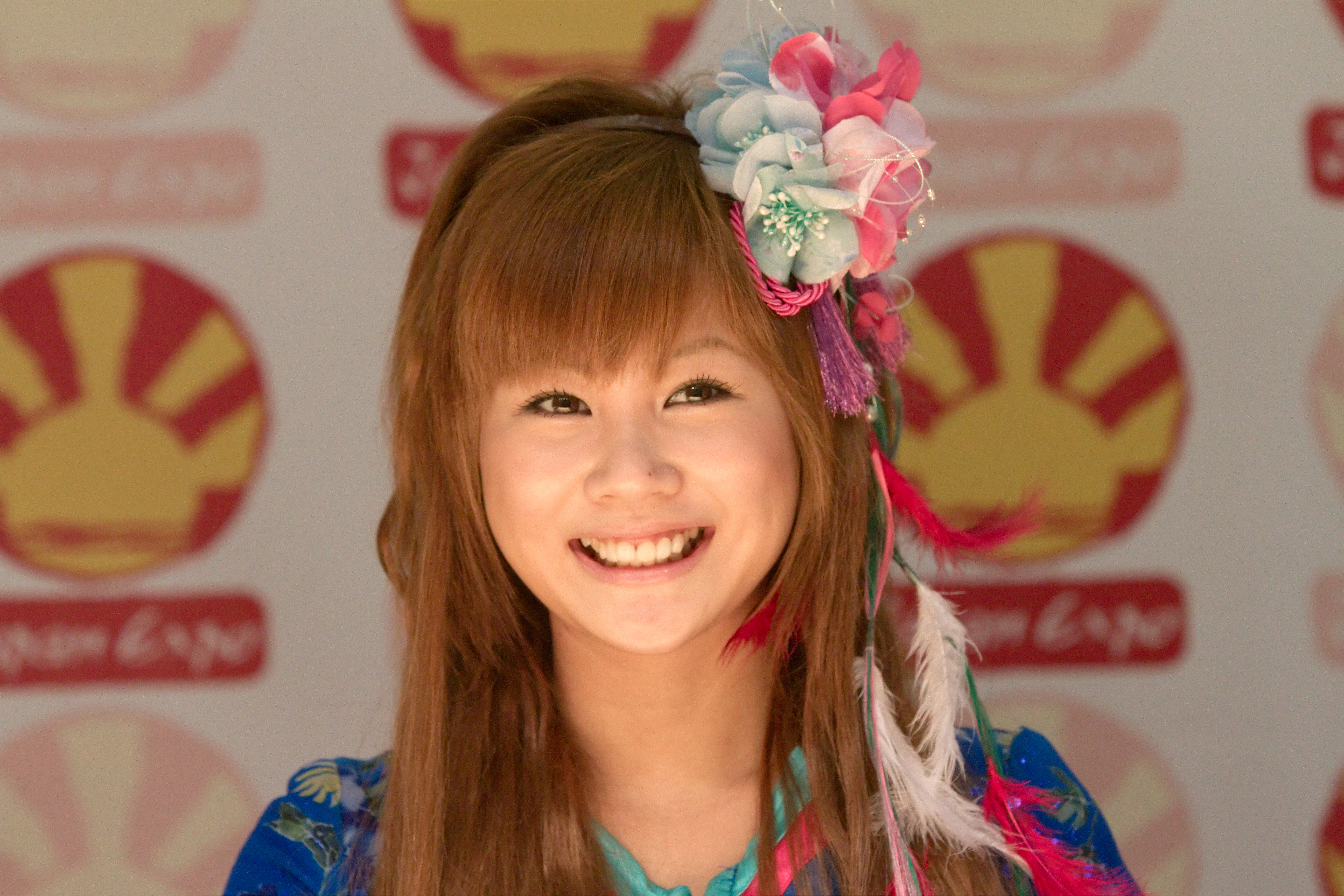 Risa Niigaki of Morning Musume during autograph session at Japan Expo, Sunday, July 03, 2010 (Paris, France).